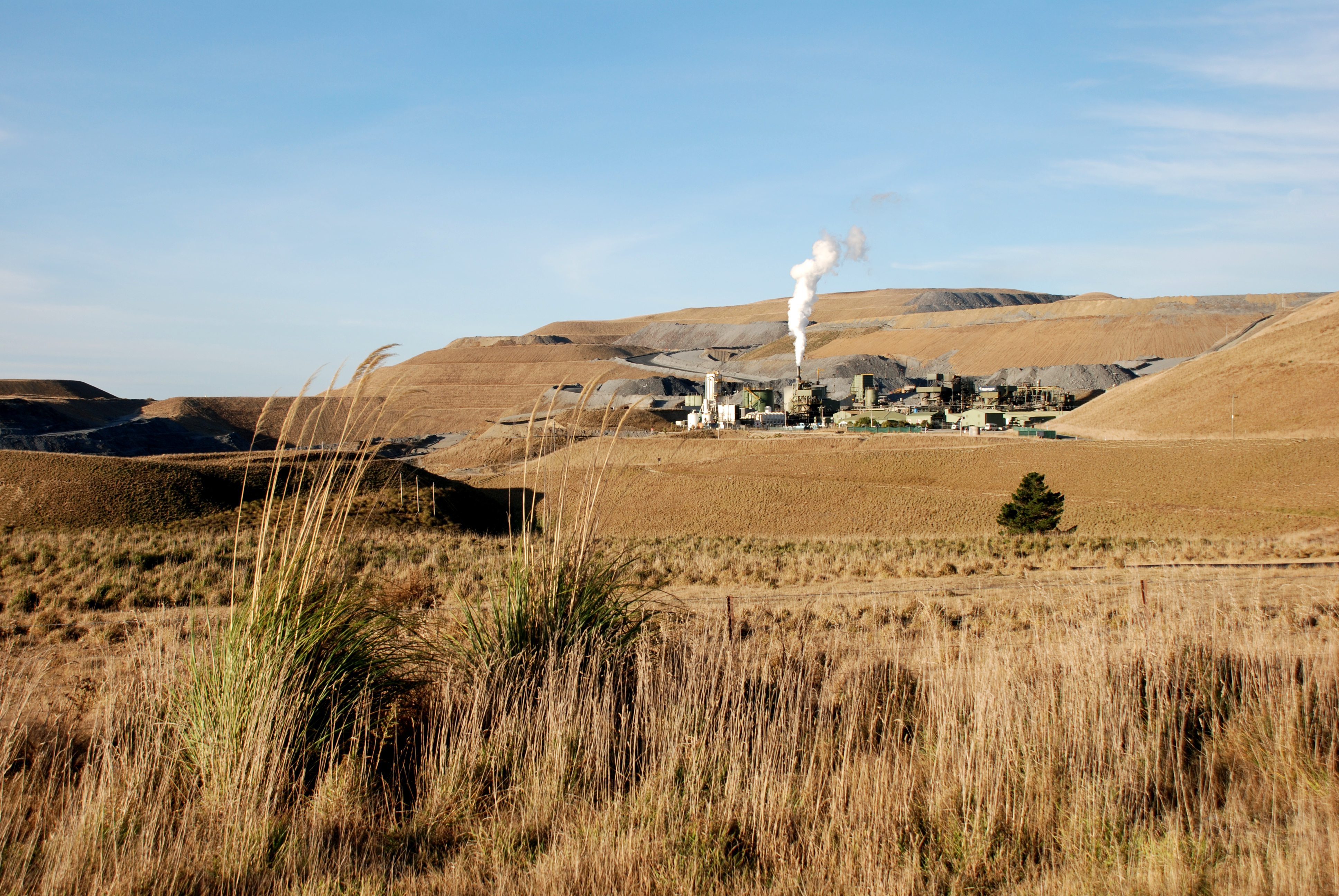 Macraes gold mine and mill, Otago, New Zealand, May 2007